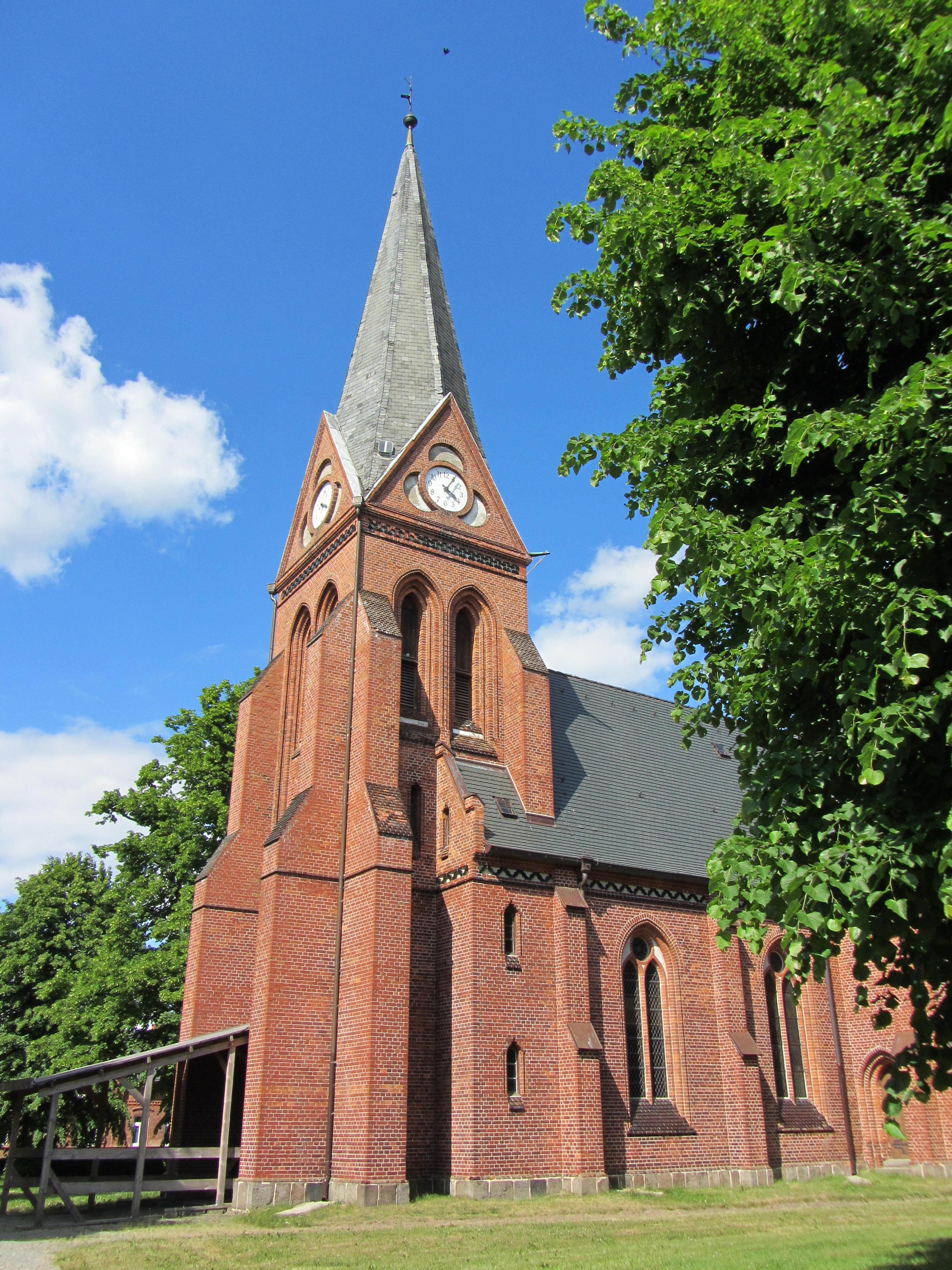 Church in Muchow, district Ludwigslust-Parchim, Mecklenburg-Vorpommern, Germany